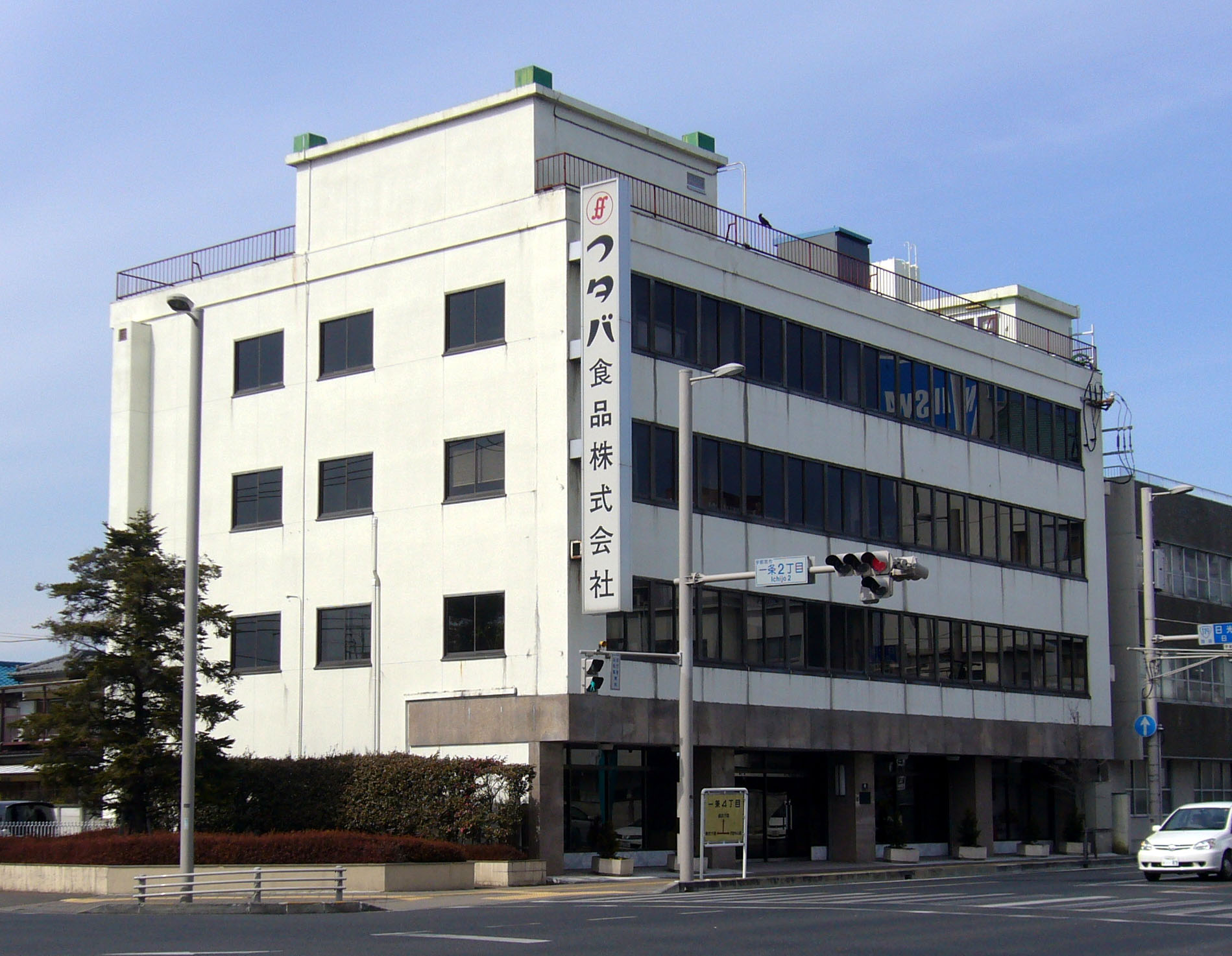 Futaba Foods headquarters (Utsunomiya, Japan)